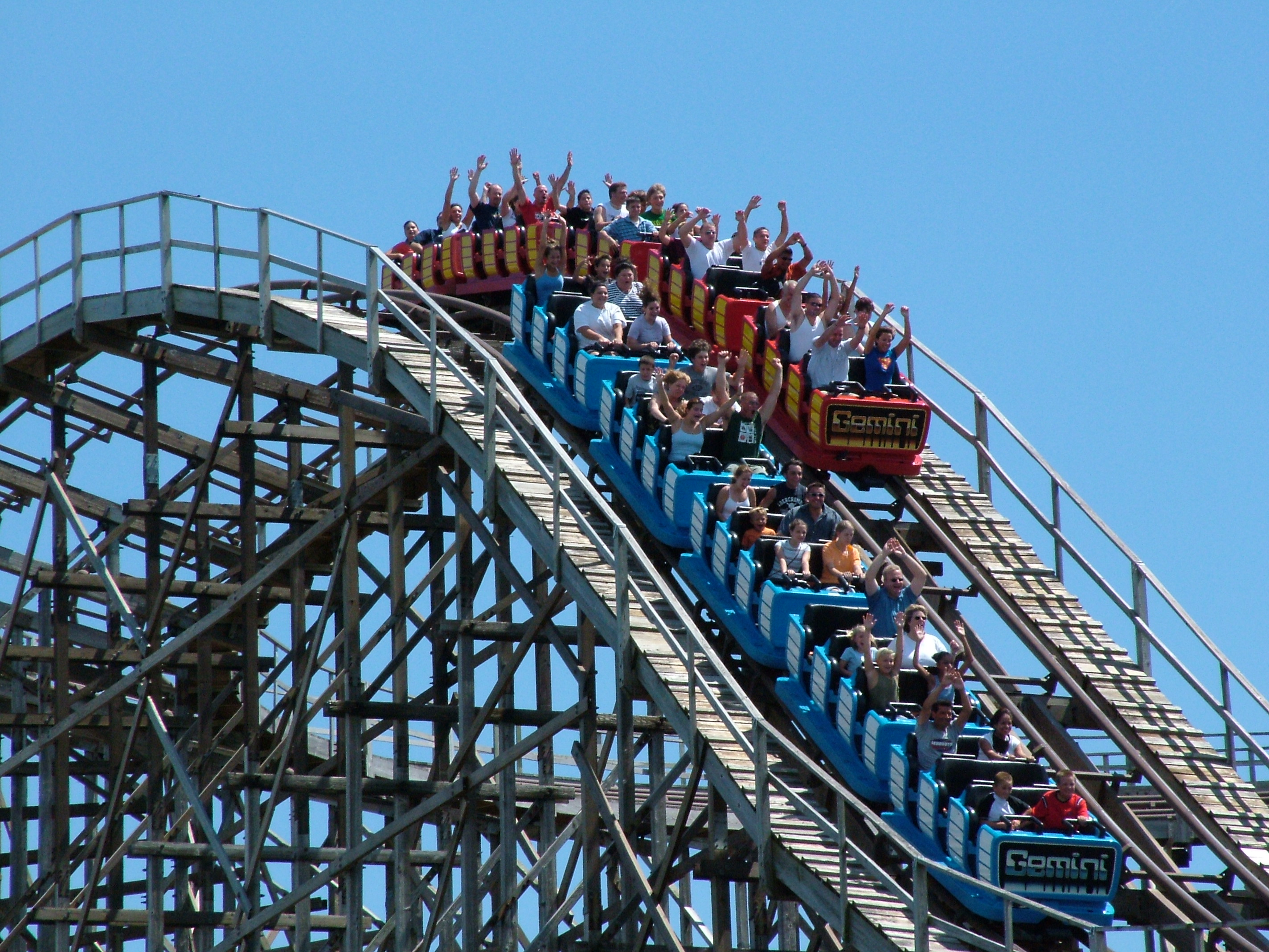 Photo of the Gemini roller coaster taken at Cedar Point in Sandusky, Ohio on August 8, 2004 by me, Nick Nolte